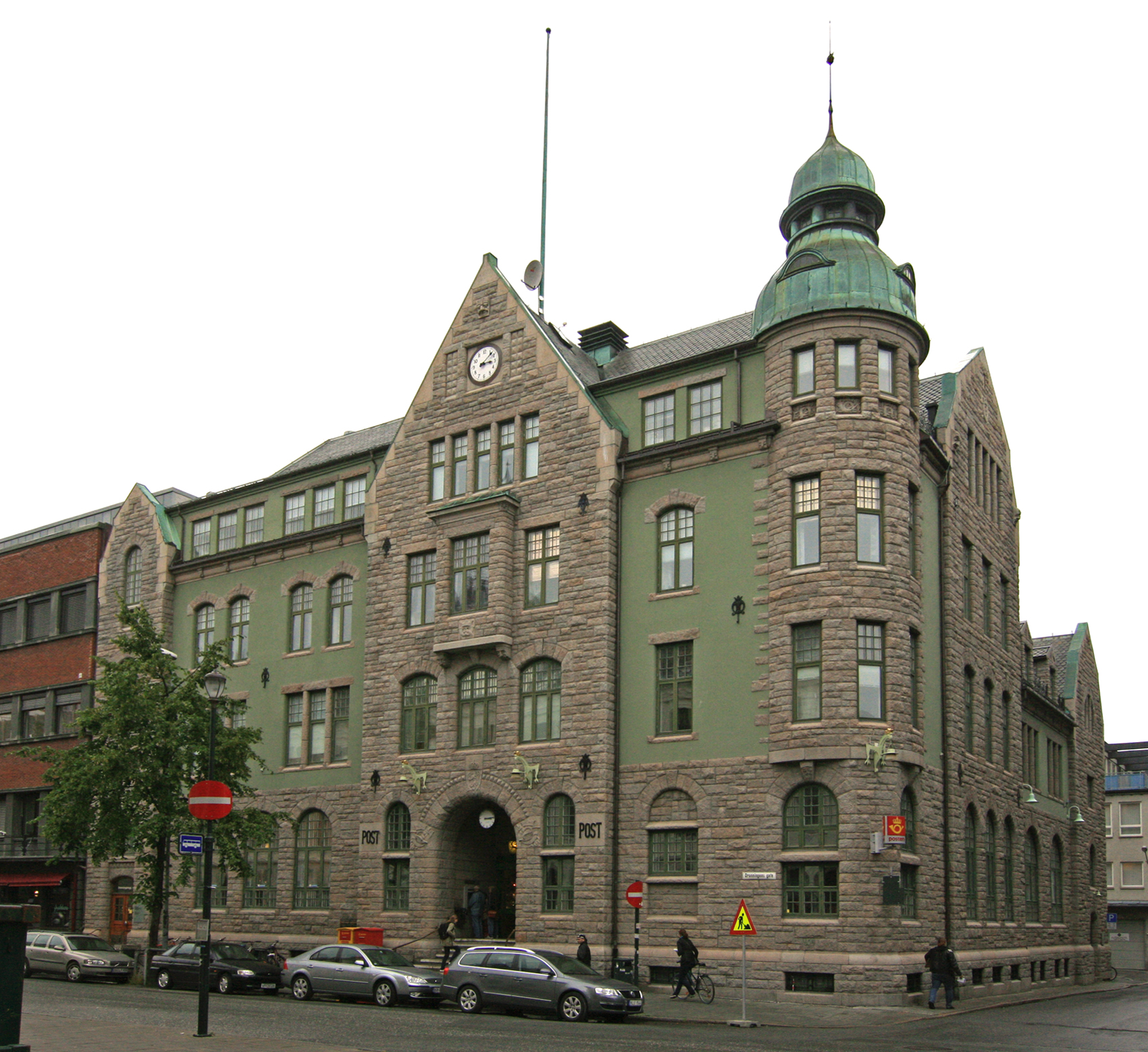 General Post Office, Dronningens St. 10, Trondheim. Built in 1911. Architect: Karl Norum.